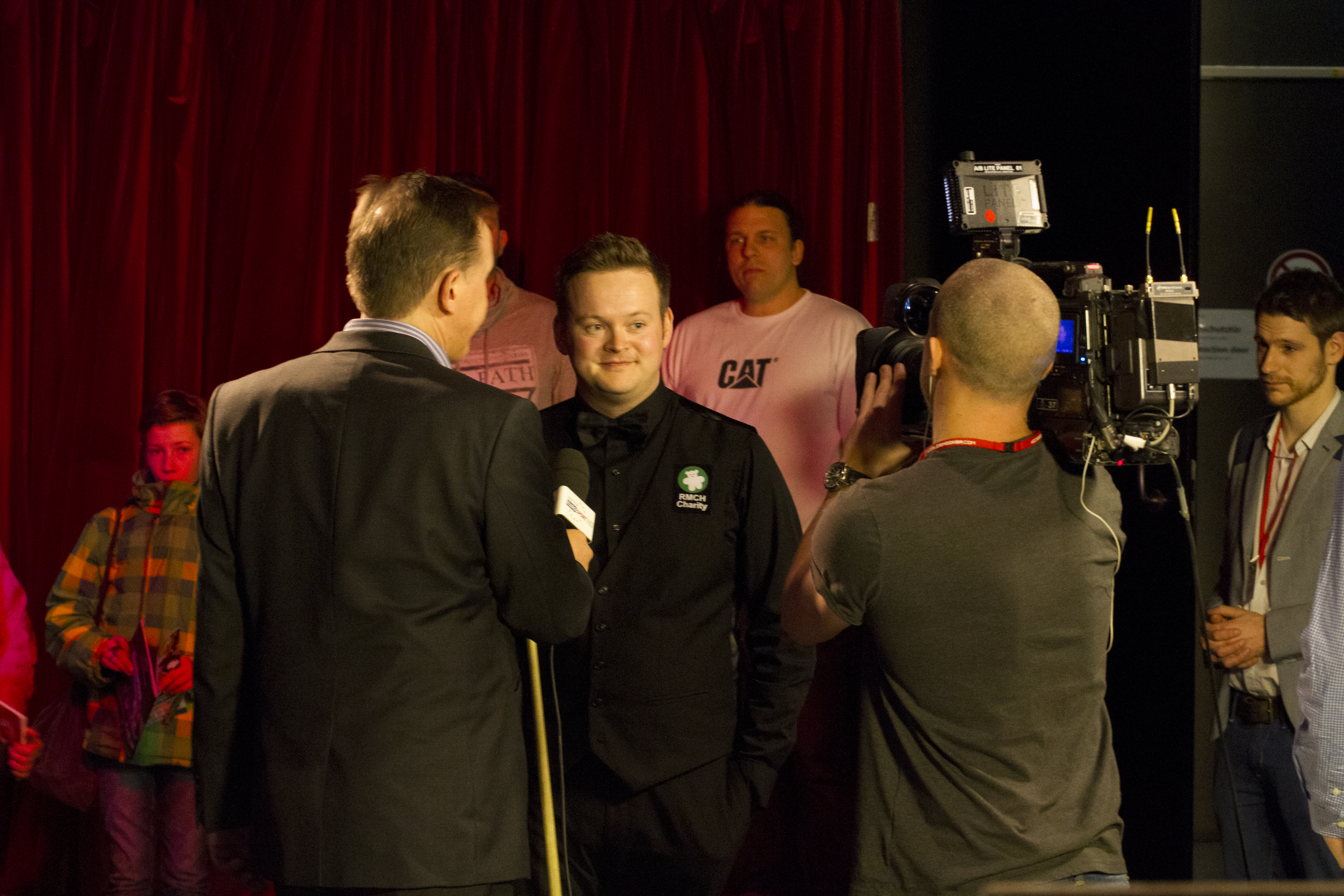 Miscellaneous photos of the Venue, Interviews, TV-Shows etc. Eurosport-UK commentatore Neal Fould in an interview with Shaun Murphy after his victory against Mark Allen.